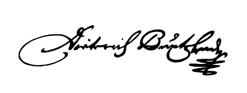 Signature of Dietrich Buxtehude (1637-1707).